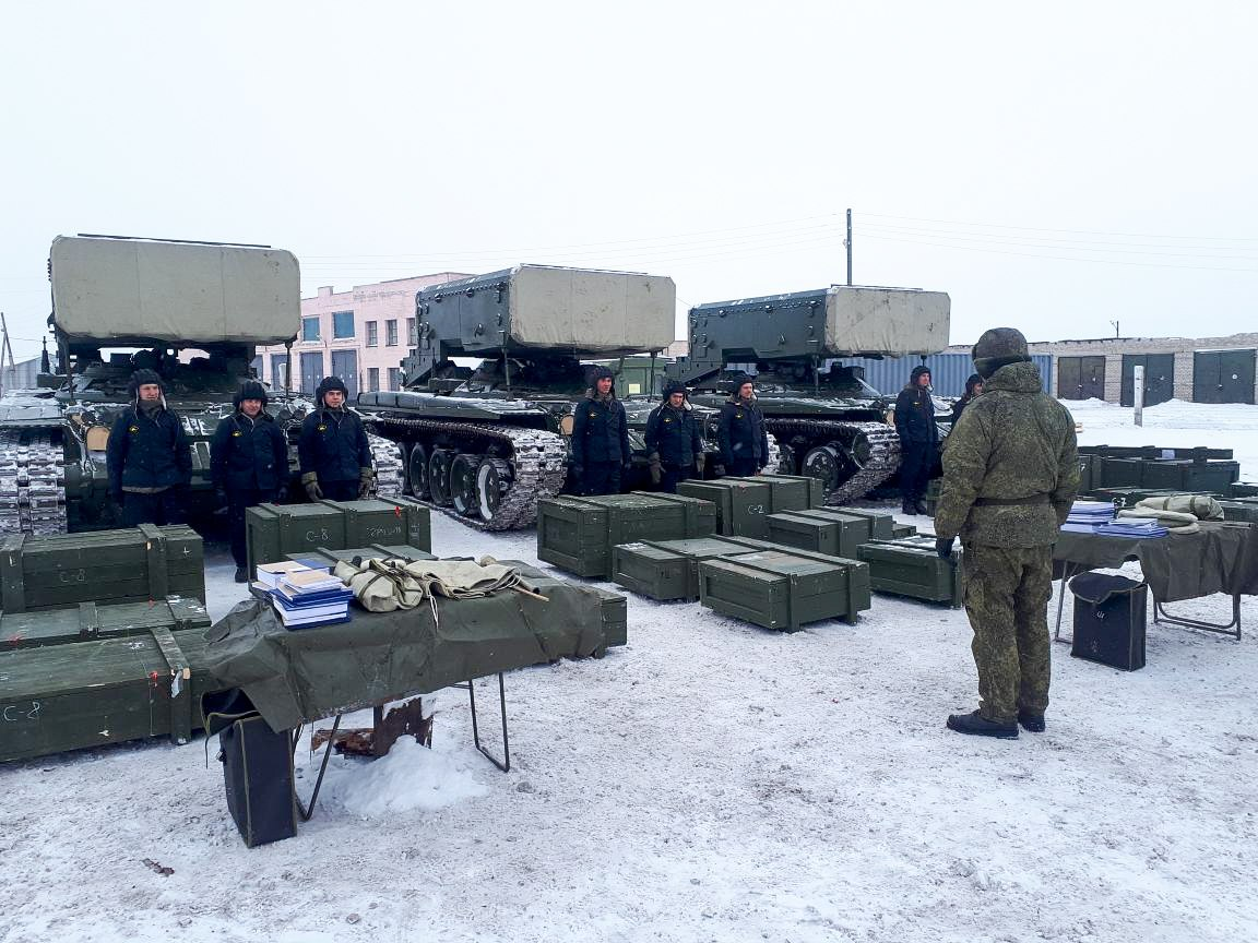 Russian TOS-1A.